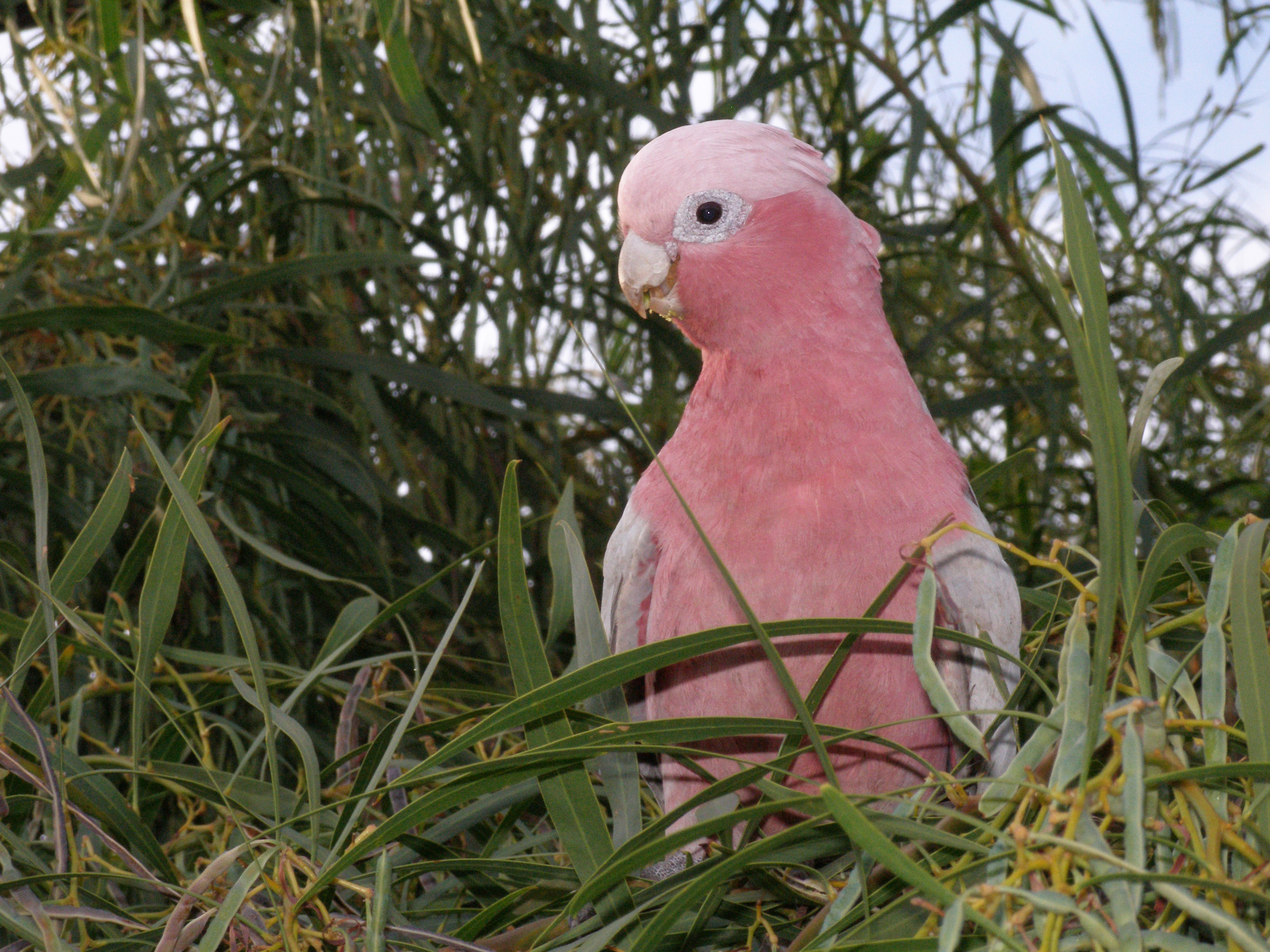 Galah, Eolophus roseicapillus, in a local wattle (Acacia saligna) tree. Perth, Western Australia.